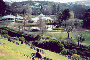 This is a photo of the main part of the Dunedin botanical gardens. It was a sunny day from memory, but the picture doesn't really show it. The photo is taken looking west, and looks onto the duck pond on the flat part of the gardens. The more central building is where tropical and succulent plants are housed, the round building on the left is a restaurant. I, Tristanb, took this picture (with a disposable), and release it for use under terms of the GFDL.